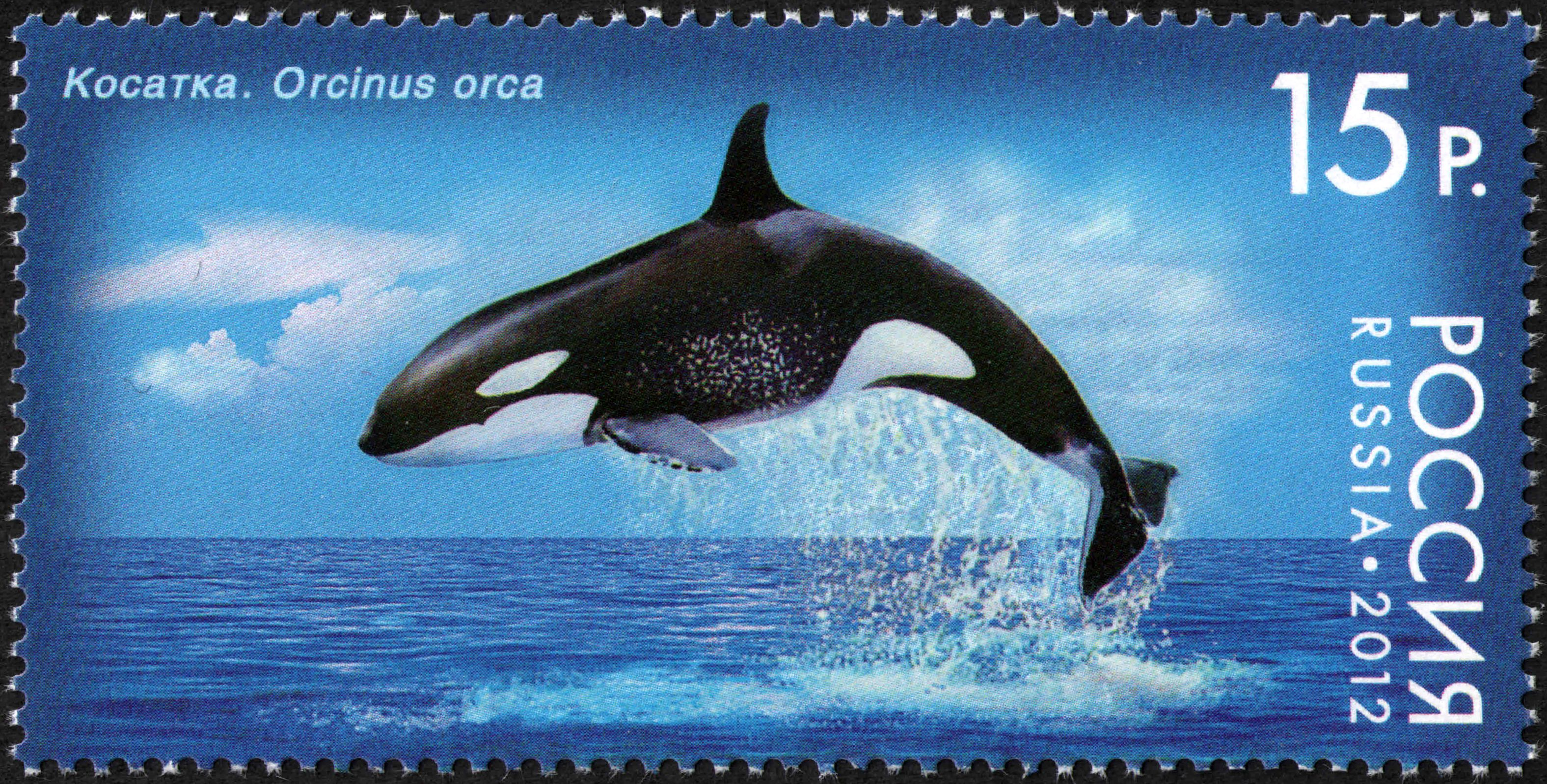 The Fauna of Russia. Cetacea. Killer whale (Orcinus orca).The stamp of Russia, 15.00 Rubles, 8 February 2012, PTC Marka Catalogue No 1556, Michel No 1788. Coated paper. Offset printing. Perforation: comb 13½:13½. Size of the stamp: 65×32.5 mm. Print run: 220,000.